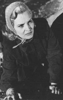 Silvia Nolasco-actress